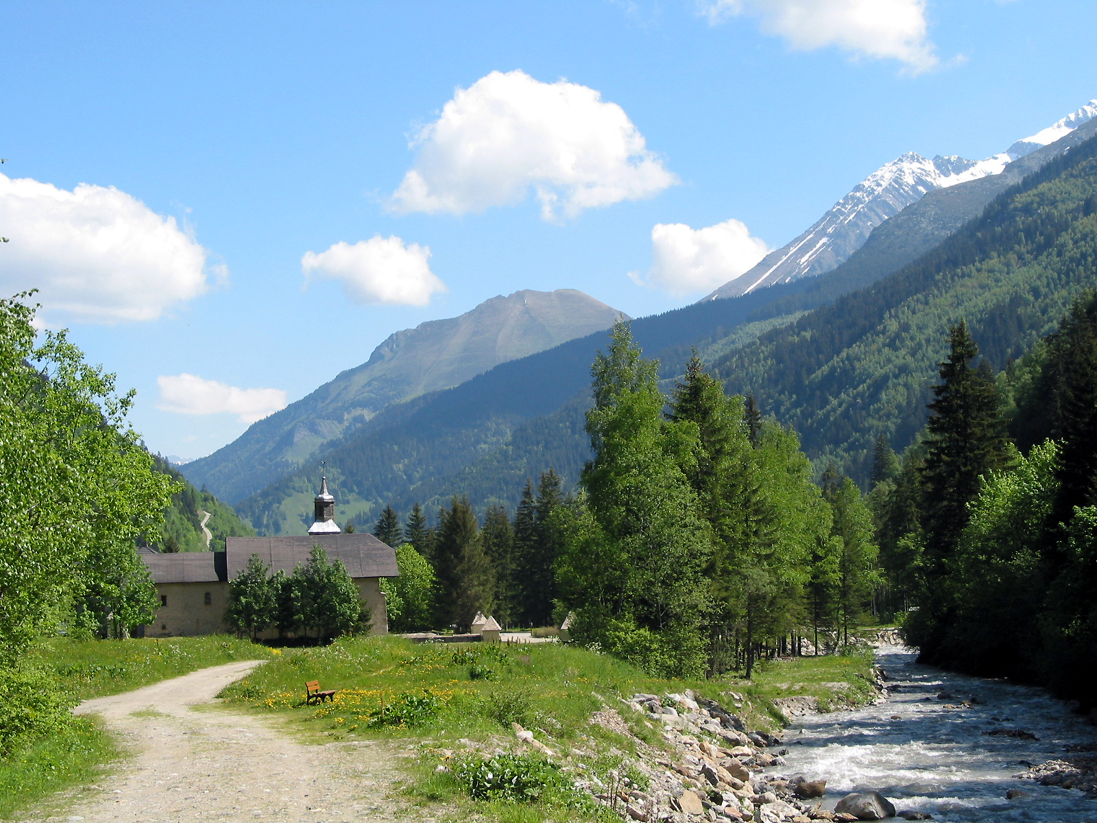 Les Contamines-Montjoie (Haute-Savoie - France), the church of Notre-Dame de la Gorge (1699).